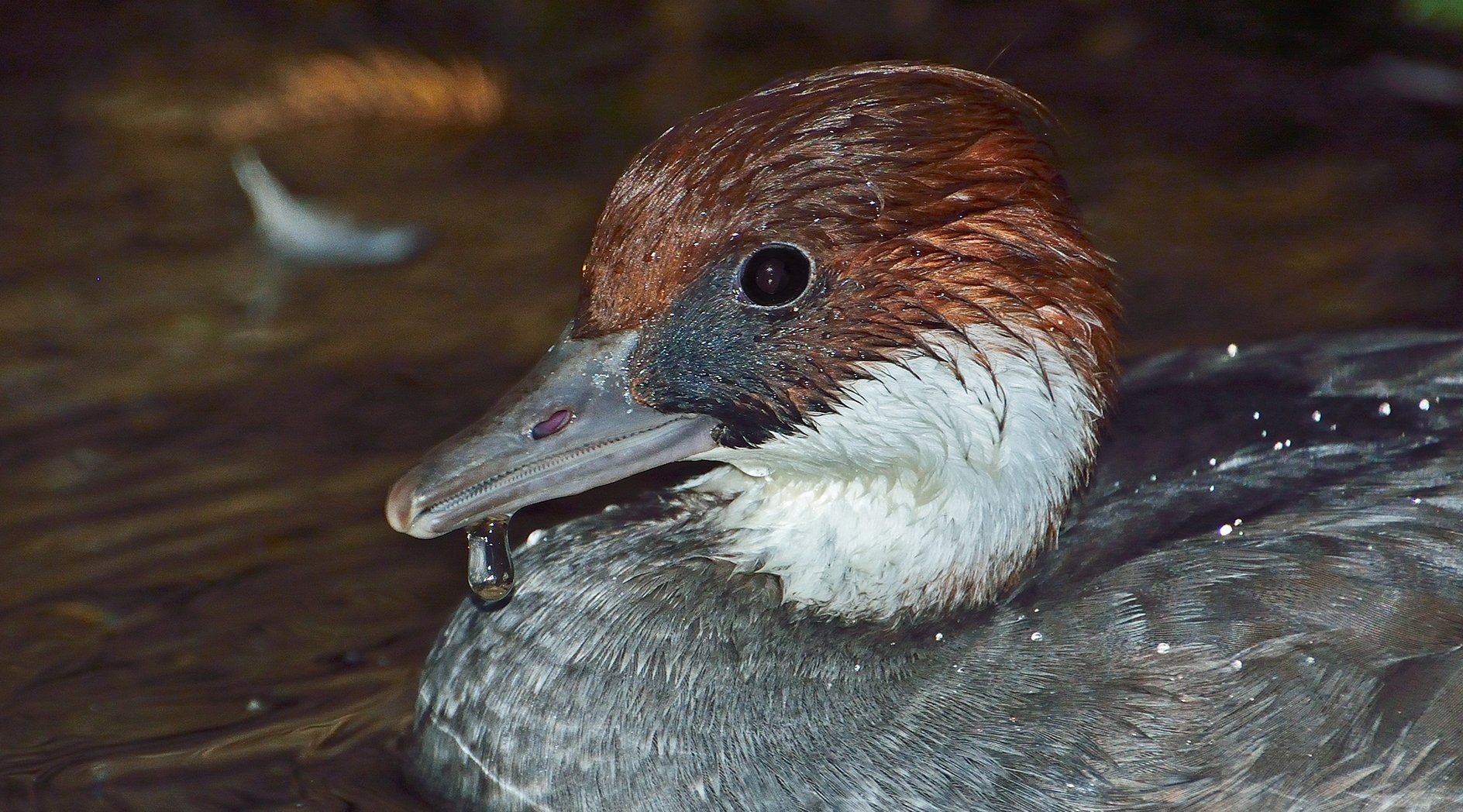 Smew Mergellus albellus closeup view, Bronx Zoo, New York, USA.